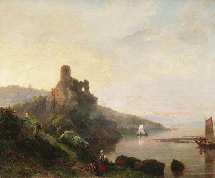 Romantic Rhine landscape with ruin at sunset. Painting by the German-Belgian artist Peter Ludwig Kühnen (aka Pieter Lodewyk Kuhne). Oil on canvas, 86 x 105cm.